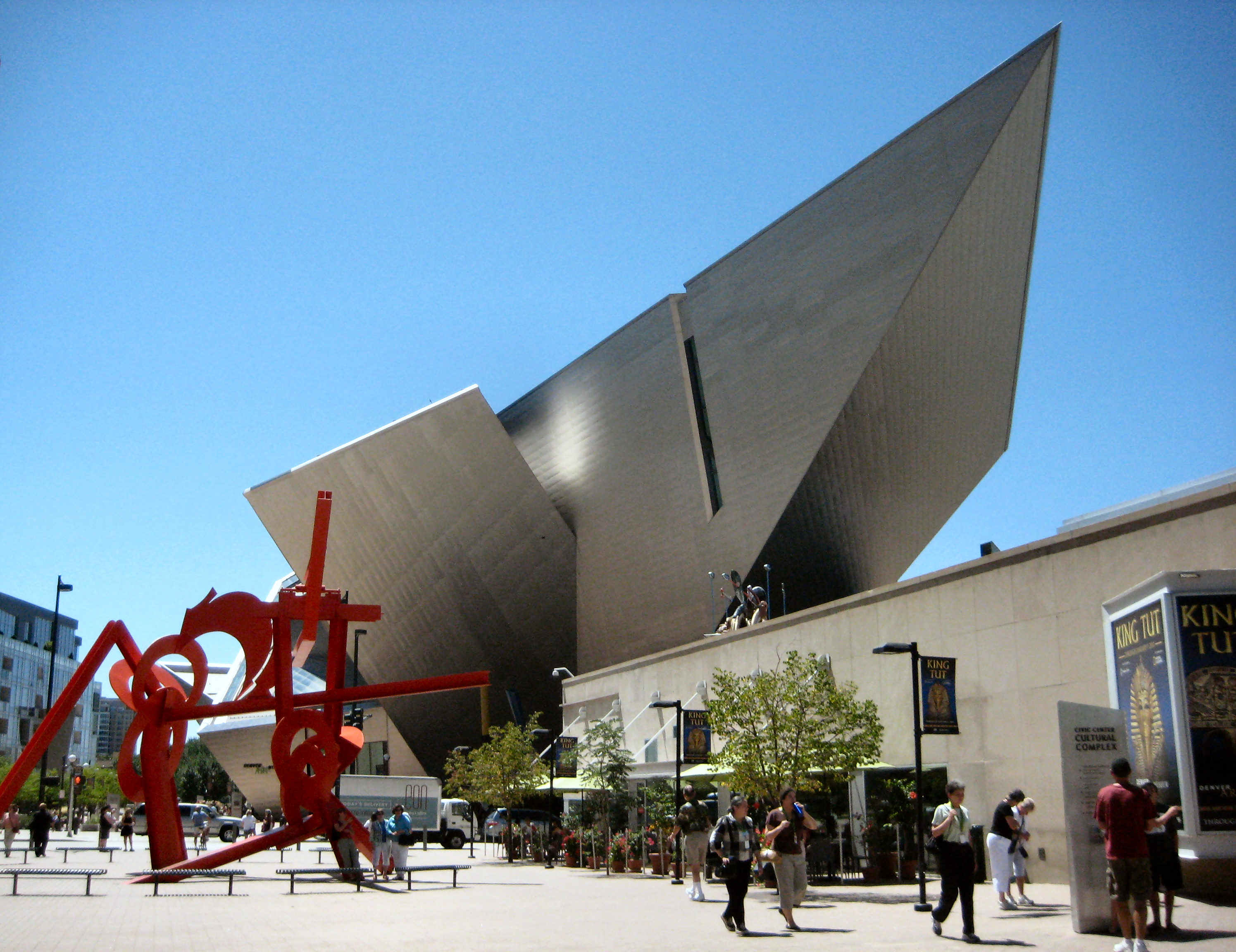 Denver Art Museum, Denver.